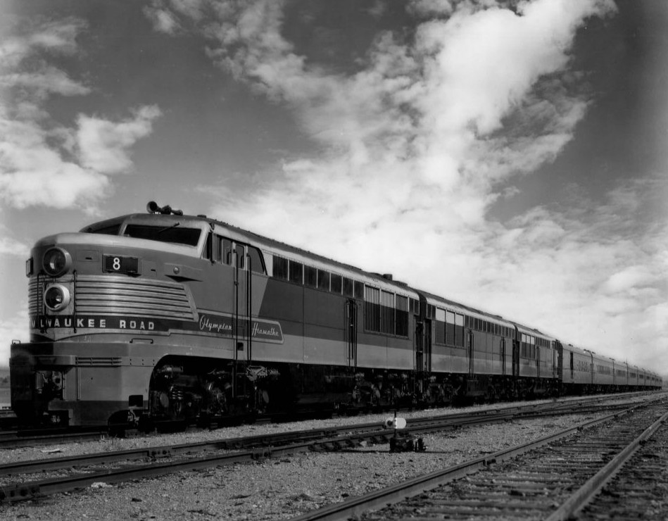 Photo of the Milwaukee Road streamliner the Olympian Hiawatha before its first run in 1947.